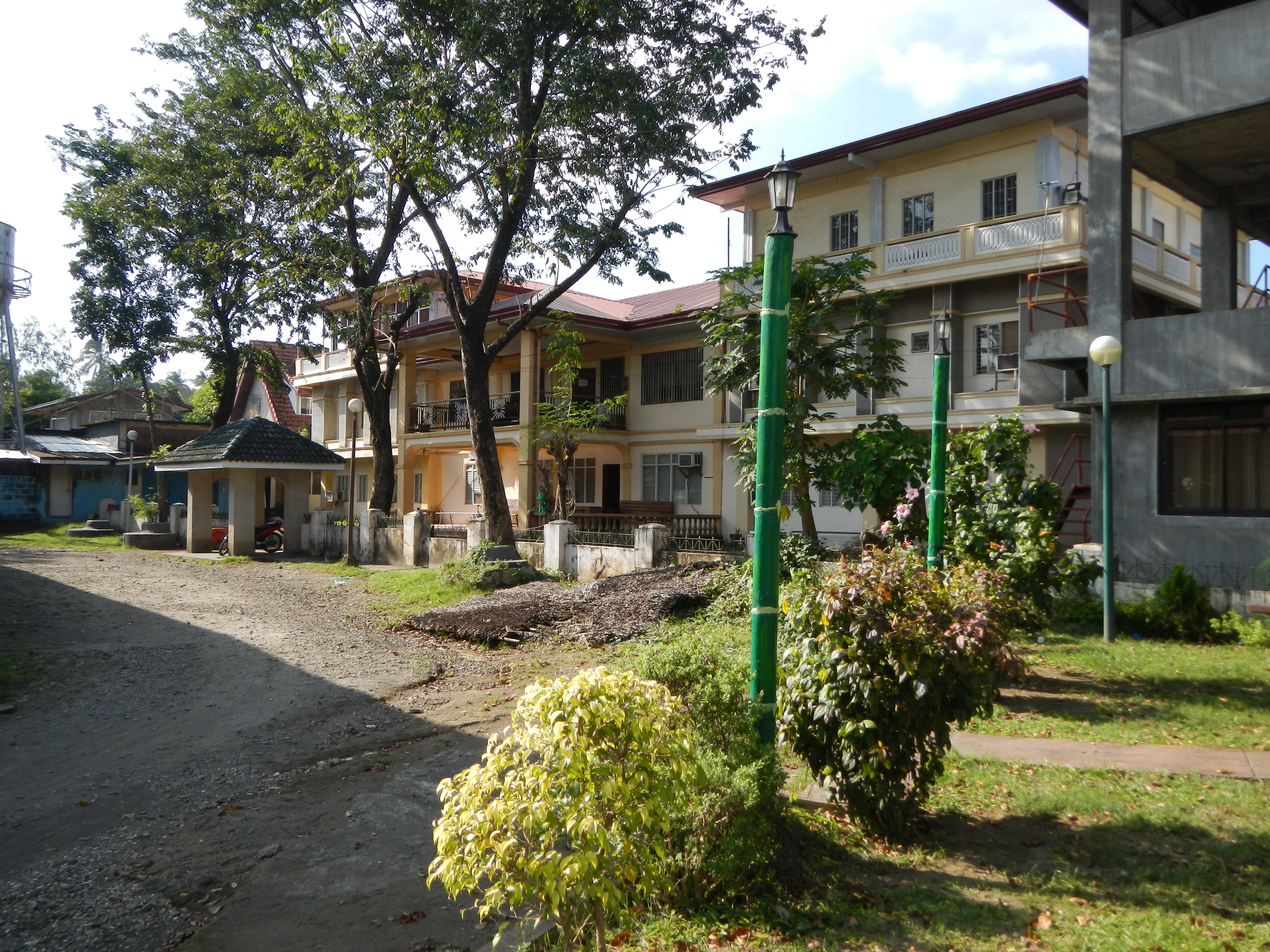 Upload Wizard photos of - Agoncillo Public Market, Fire station truck, Municipal Hall Complex, including the Police station, Agoncillo New Rural Bank of Agoncillo, Inc., Municipal Cultural Center, Town Hall and Offices, of - Agoncillo, Batangas[1].